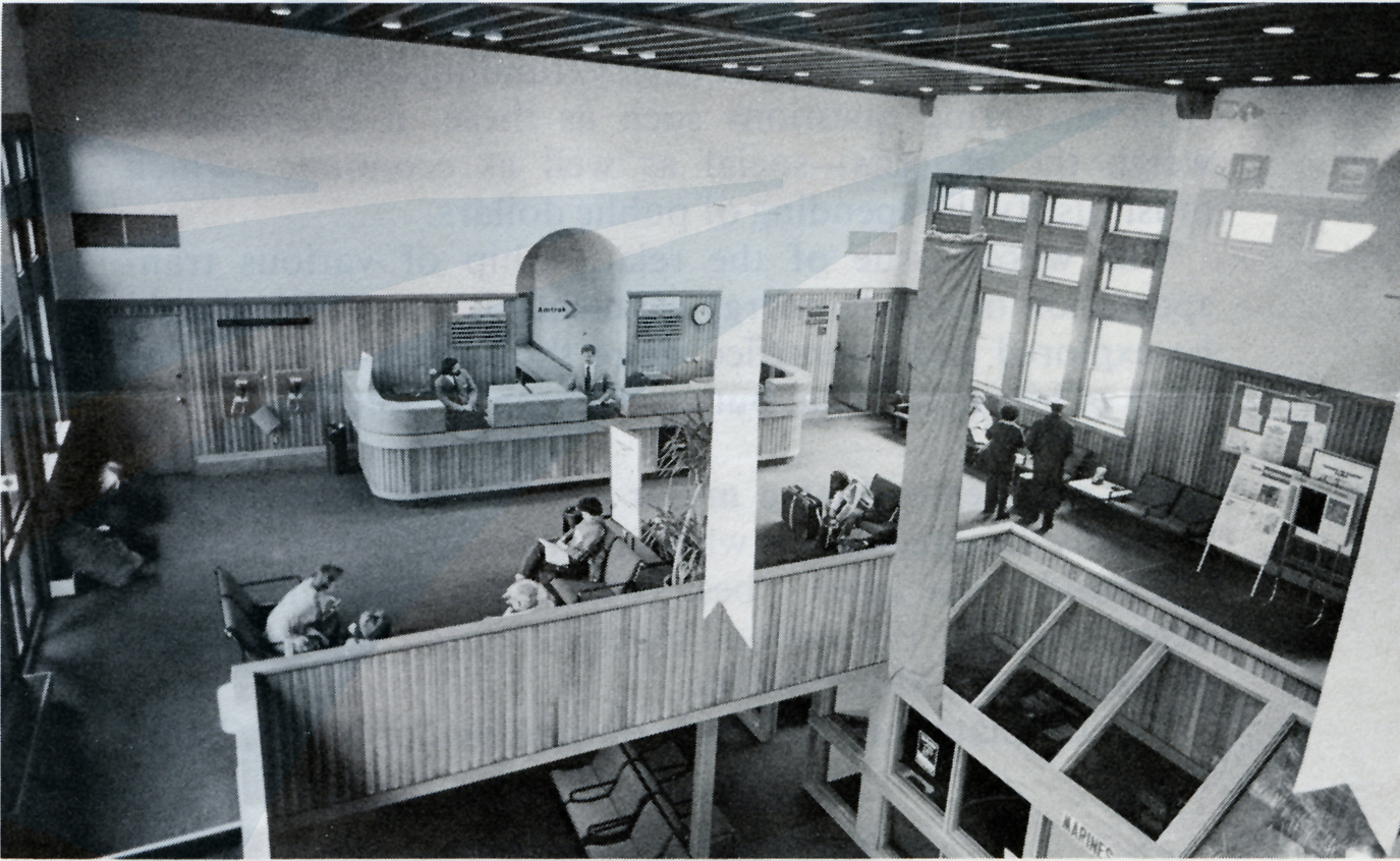 Interior of New London Union Station in 1979, showing the basement-to-mezzanine atrium created in the 1976-77 renovations